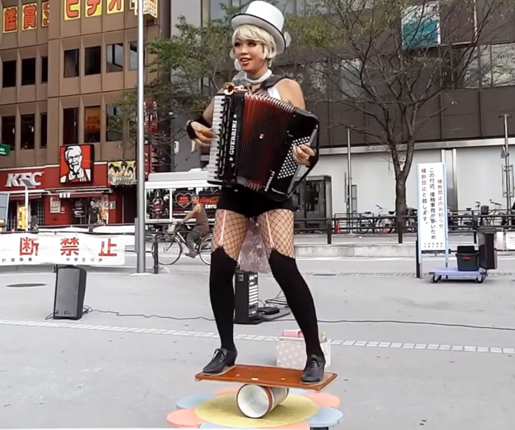 On 12th October 2013, in front of the north gate of Nakano Station, Tokyo. Accor de Nonon (her true name is Norie ANZAI) is one of the street performers called HEAVEN ARTISTS. who are licensed by Tokyo Metropolitan Government. called HEAVEN ARTISTS.